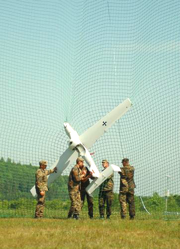 A German Army unmanned aerial vehicle, known as Luftunterstuetzte Unbemannte Nahaufklaerungs-Ausstattung (LUNA), is recovered from its net following its fly-over mission to the Combined Endeavor training site May 9. LUNA team members disassemble the craft and take it to the maintenance shop in preparation for its next training mission. Combined Endeavor 2007, a U.S. European Command-sponsored exercise, brings U.S., NATO, Partnership for Peace (PfP) and other nations together to plan and execute interoperability testing of command, control, communications and computer systems from participant nations in preparation for future combined humanitarian, peacekeeping and disaster relief operations.